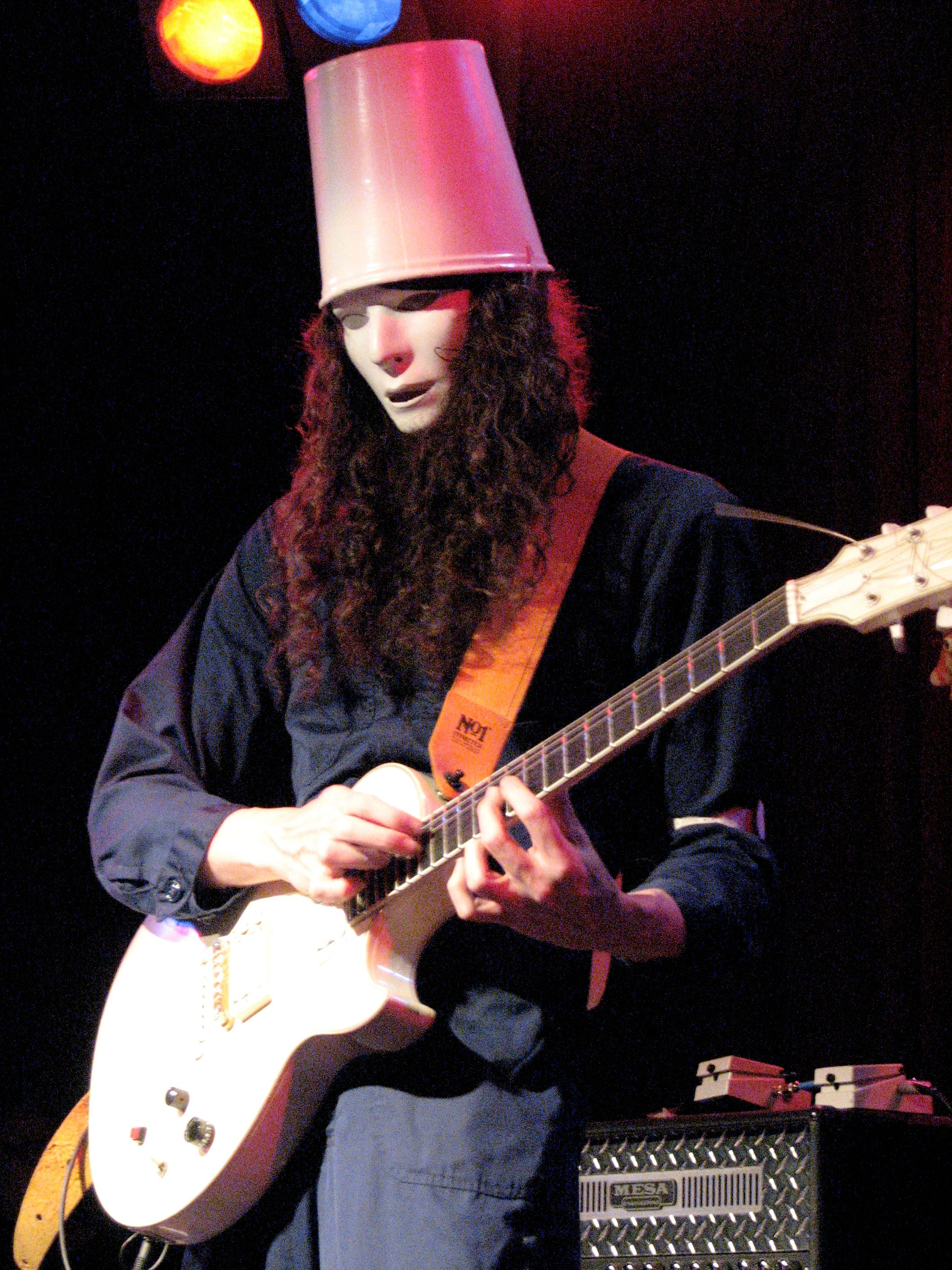 Buckethead